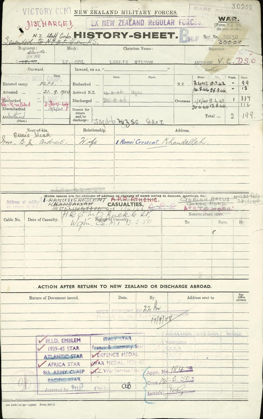 Personnel file (1914 - 1945) of Leslie Wilton Andrew. Served during WWI & WWII in the New Zealand Army. Recipient of the Victora Cross (Gallantry Medal). Archives New Zealand Reference: AABK 18806 W5602 1 /